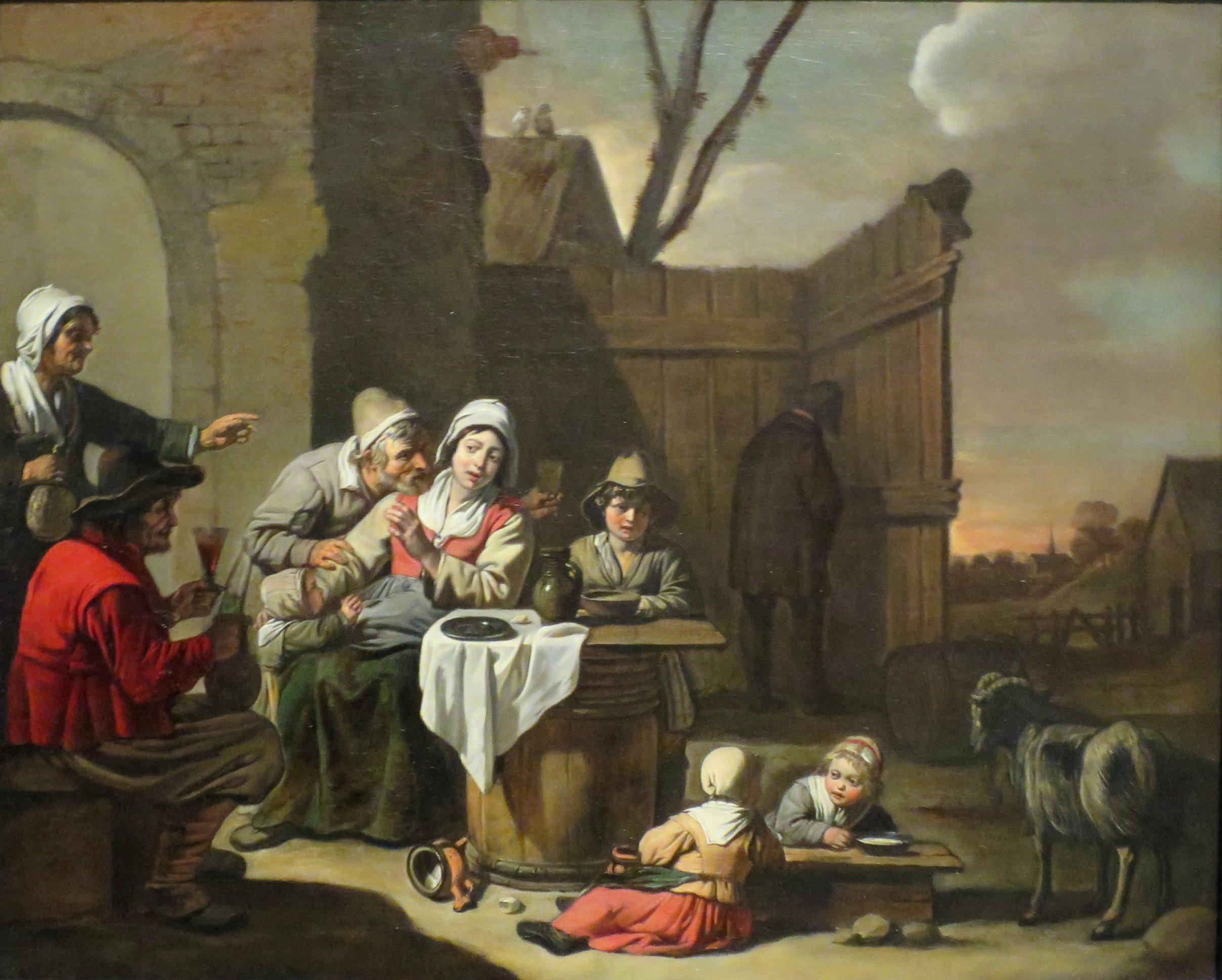 The Courtyard of a Country Inn with Peasants Eating and Drinking